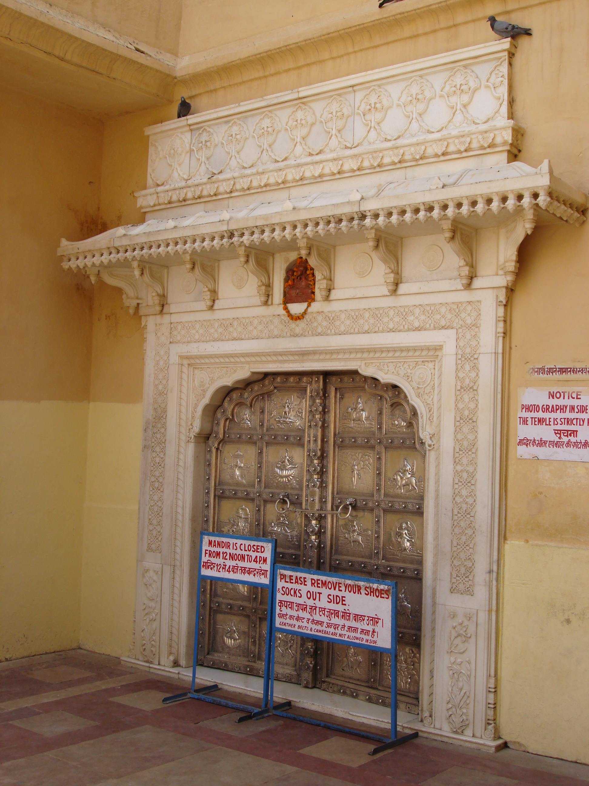 Silver entrance doors of the small Kali Temple. From the 16th century to 1980 (when it was banned), a goat was sacrified here daily.[Lonely Planet - India]